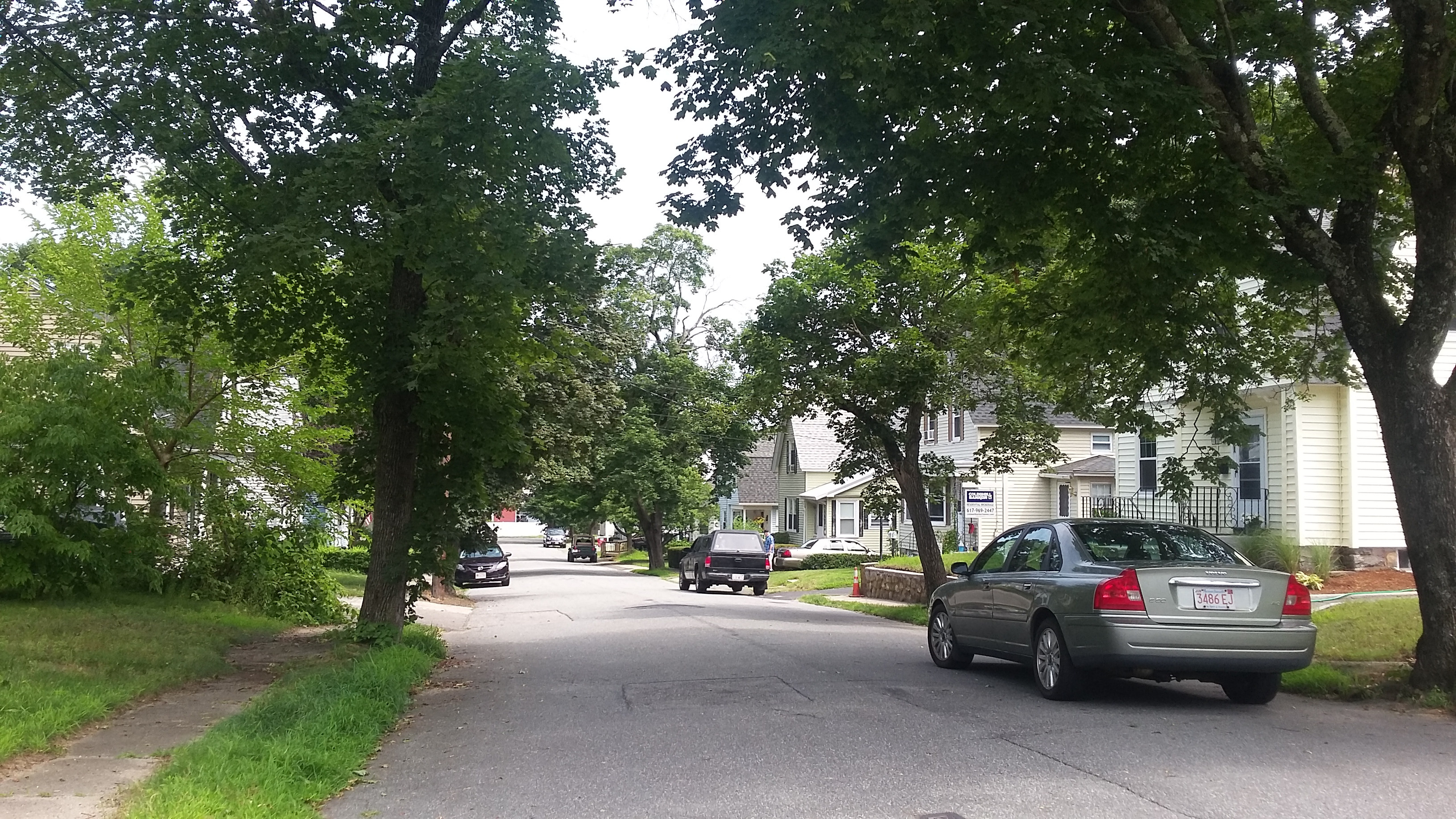 Presidential Village Maynard MA Massachusetts